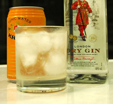 Cropped version of Image:Gin and Tonic.jpg by User:SElephant, so same copyrights apply as to there. Any of my modifications licensed under GFDL